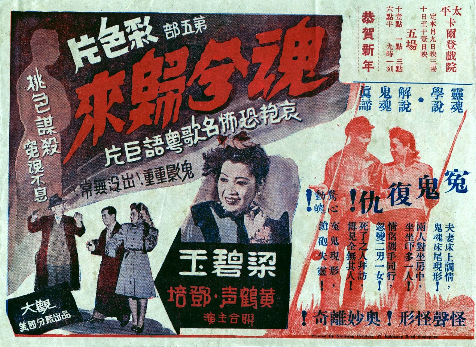 Leaflets of colour Cantonese film "The Returned Soul" in 1947 (Front) 中文（香港）: 1947年，彩色粵語電影《魂兮歸來》的宣傳單張 (正面)